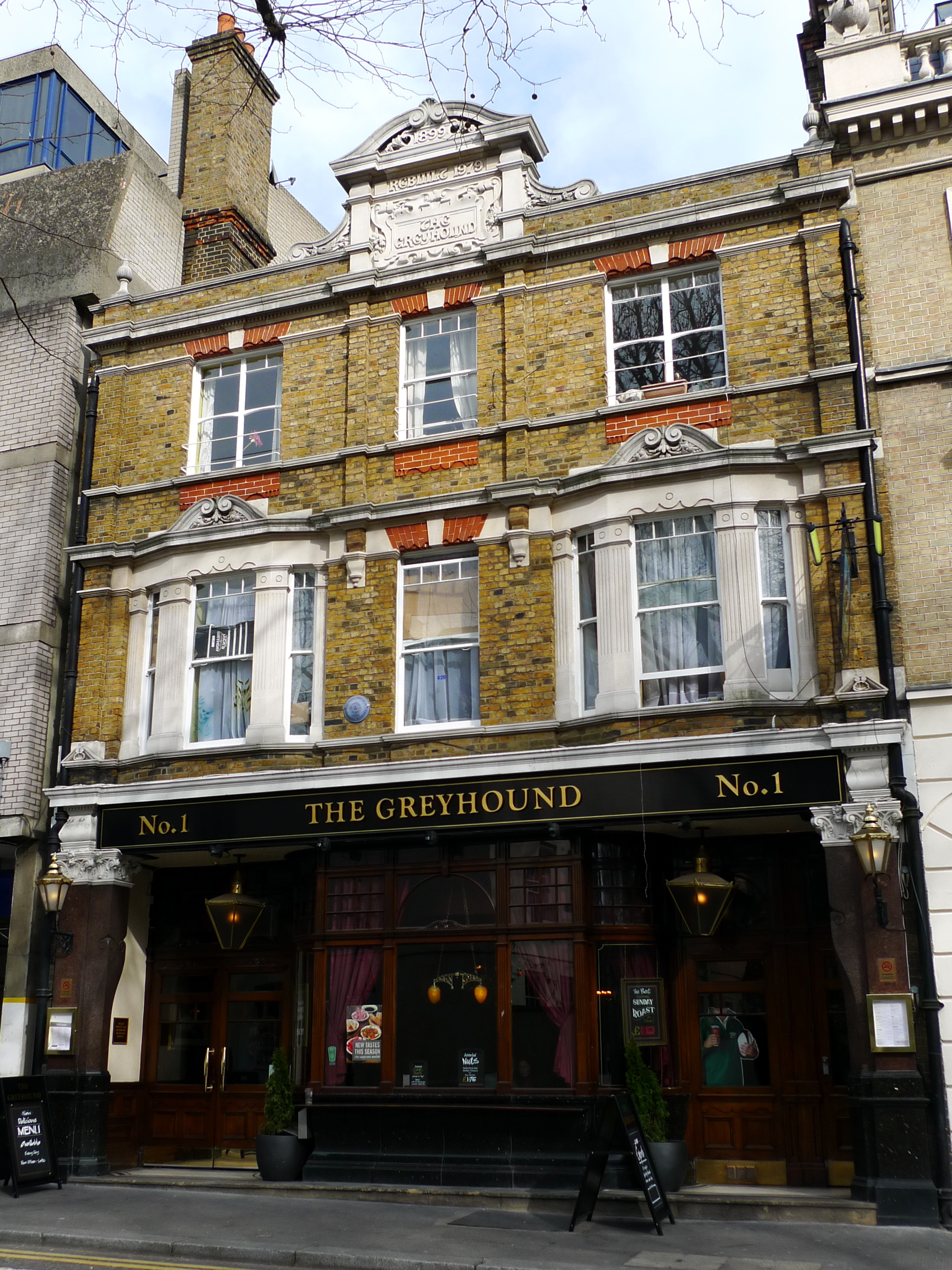 A pub just off the High Street, rebuilt in the late-70s. Address: 1 Kensington Square. Owner: Greene King; Spirit Pub Company [Taylor Walker] (former); Punch Taverns [Spirit Group] (former). Links: London Pubology